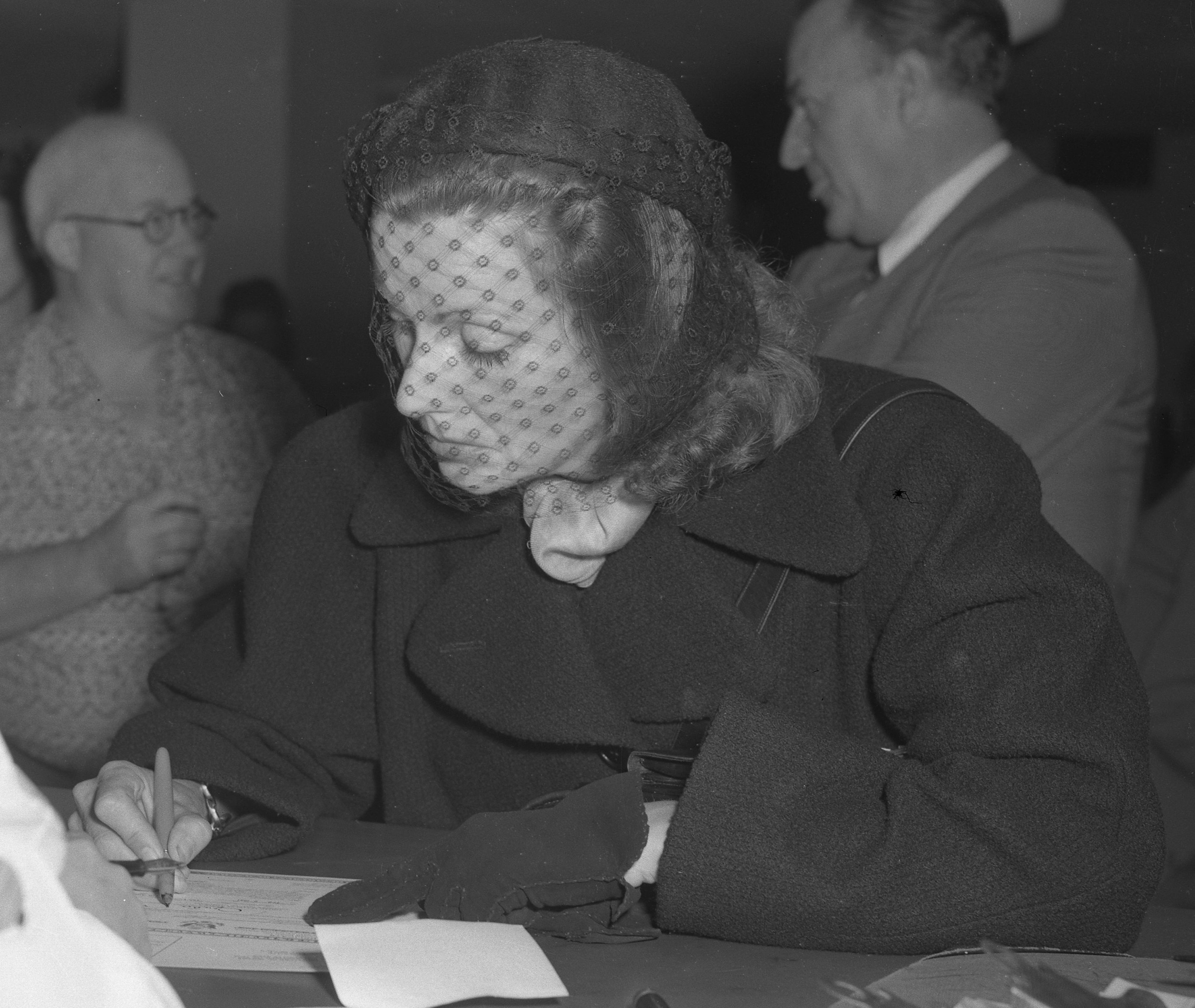 Actress Greta Garbo filling out paperwork for United States citizenship